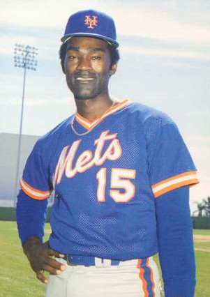 Professional baseball player George Foster